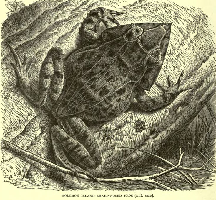 Ceratobatrachus guentheri